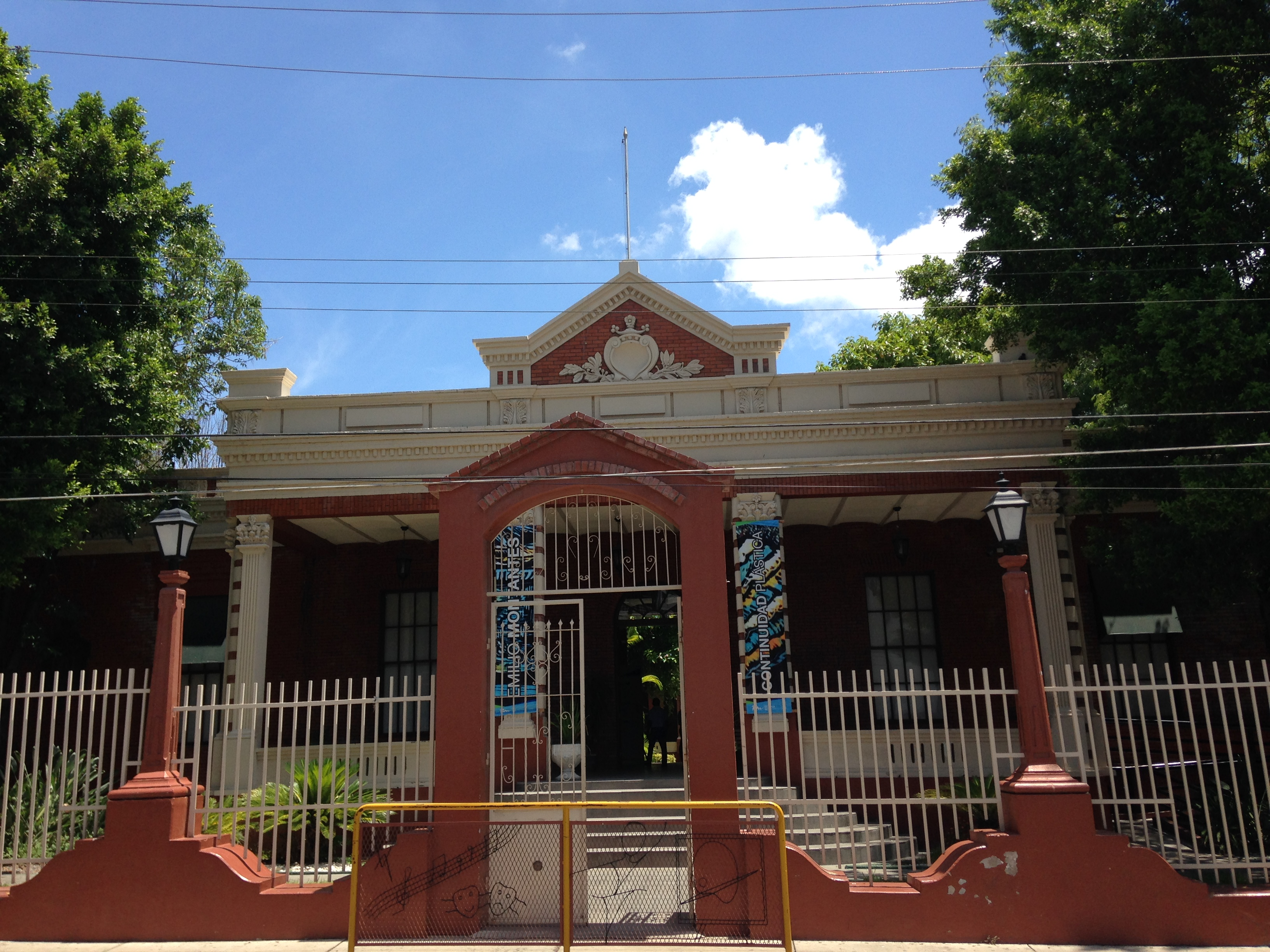 Entrance of the Casa del Arte, an old restored building dedicated to promote culture and arts in Victoria City, state of Tamaulipas, in Mexico